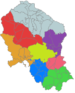 Map of the regions of province of Córdoba, Spain.